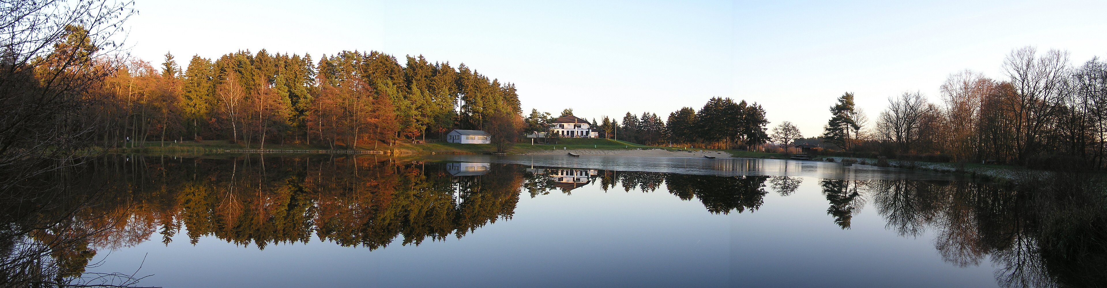 Panorama of the Hattsteinweiher near Usingen (Taunus)